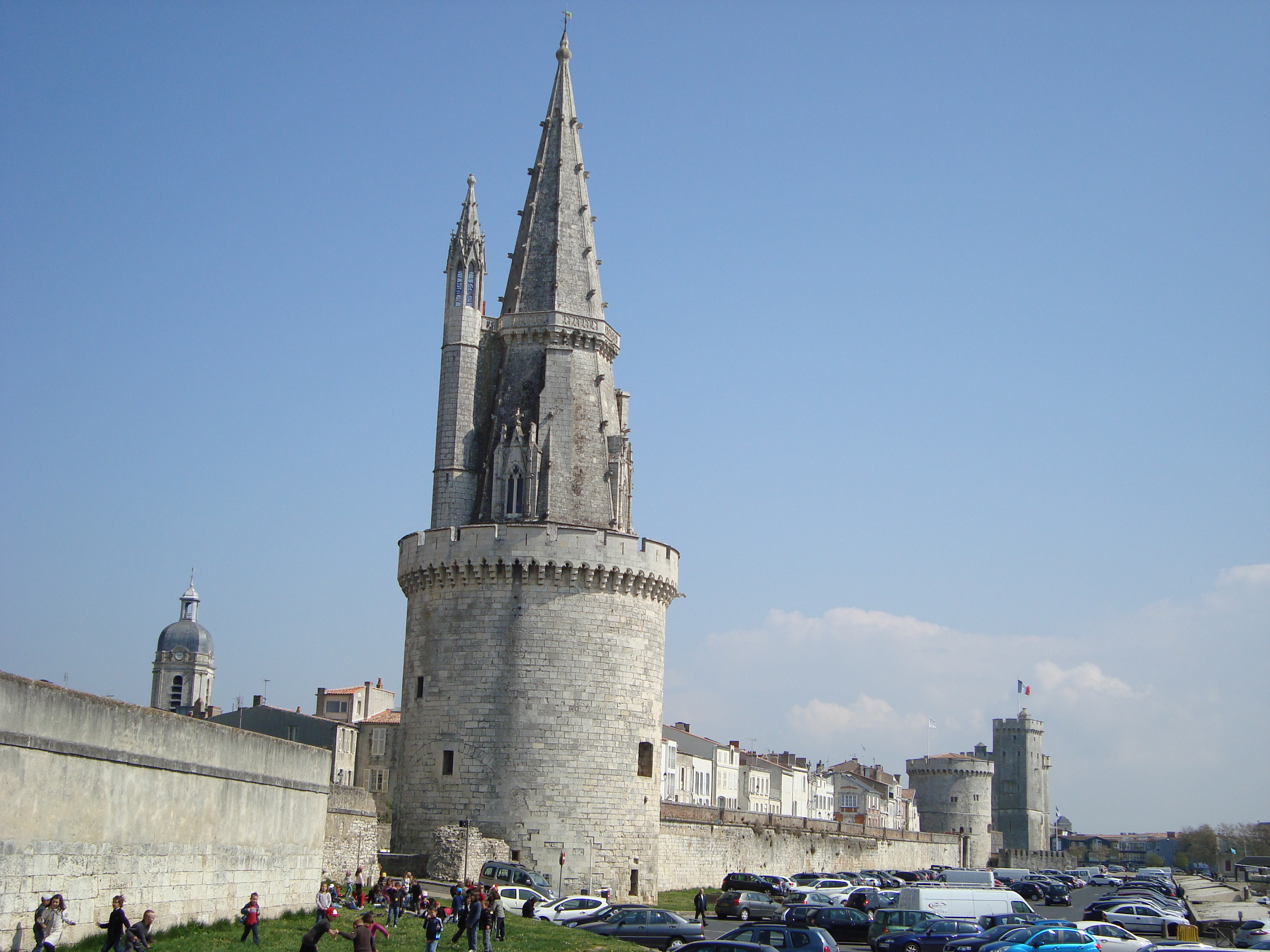 La Rochelle